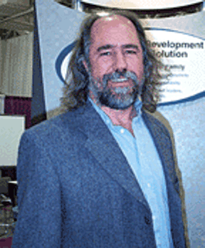 Grady Booch, US Air Force Academy graduate and software developer